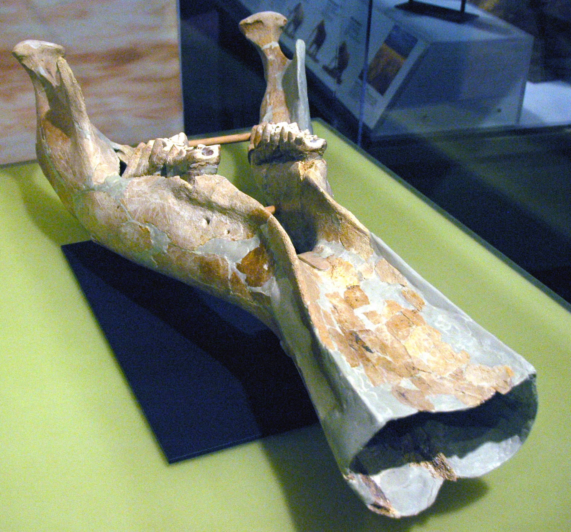 Amebelodon fossil elephant (lower jaw) from the Upper Miocene of Florida, USA (UF 217472, Florida Museum of Natural History, University of Florida, Gainesville, Florida, USA). Modern elephants (proboscideans) have two tusks emerging from their upper jaw. Some fossil proboscideans had four tusks - a pair from the upper jaw and a pair from the lower jaw (mandible). Amebelodon is one of these odd, four-tusked fossil elephants. Its lower tusks were nestled against each other and were dorso-ventrally flattened, forming a shovel-like structure (this protruded from the large opening at the front of this specimen). Amebelodon was herbivorous, as are other proboscideans. Its “shovel” aided the animal in scooping up lacustrine vegetation, removing tree bark, and other activities. The body size of various species of Amebelodon ranged from larger than to smaller than living elephant species. Amebelodon remains have been found in the Upper Miocene of North America, eastern Asia, and northern Africa. These fossil occurrences date from about 5 to 9 million years. Classification: Animalia, Chordata, Vertebrata, Mammalia, Proboscidea, Euelephantoidea, Gomphotheriidae